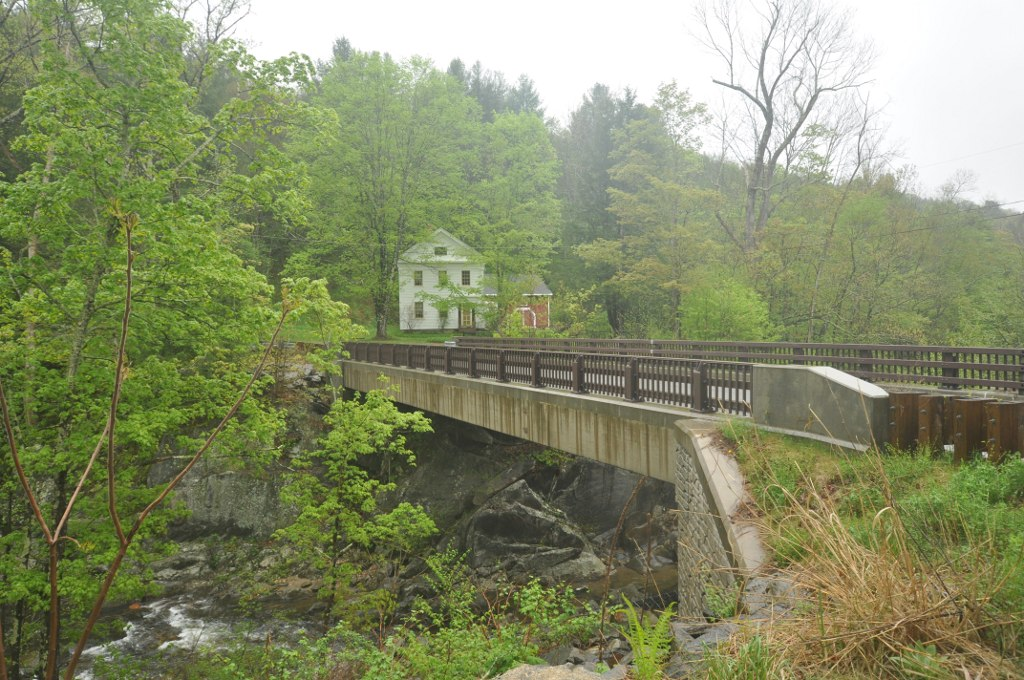 Smith Street Bridge (built 2009) and house, North Chester, Massachusetts; part of the North Chester Historic District.